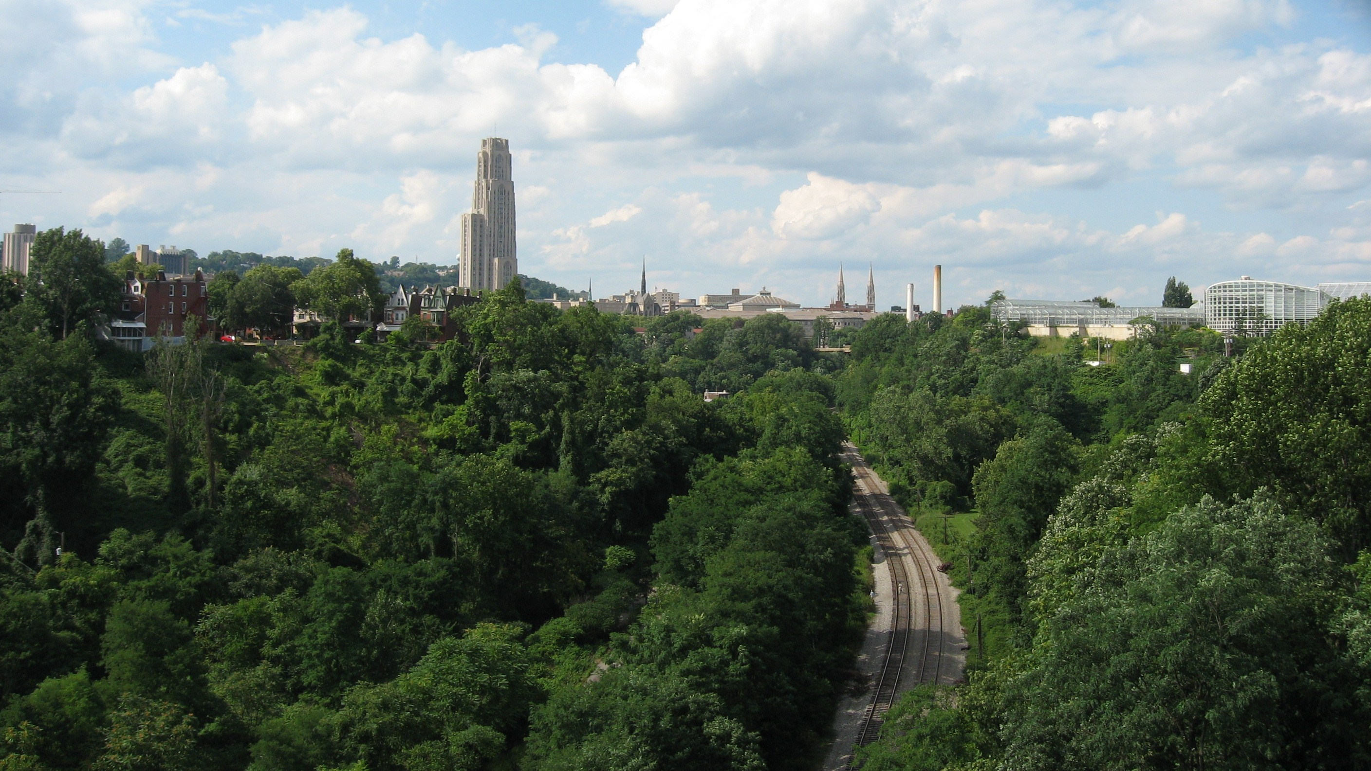 View from the Charles Anderson Memorial Bridge over Junction Hollow (?). Shows the Cathedral of Learning, and Phipps.